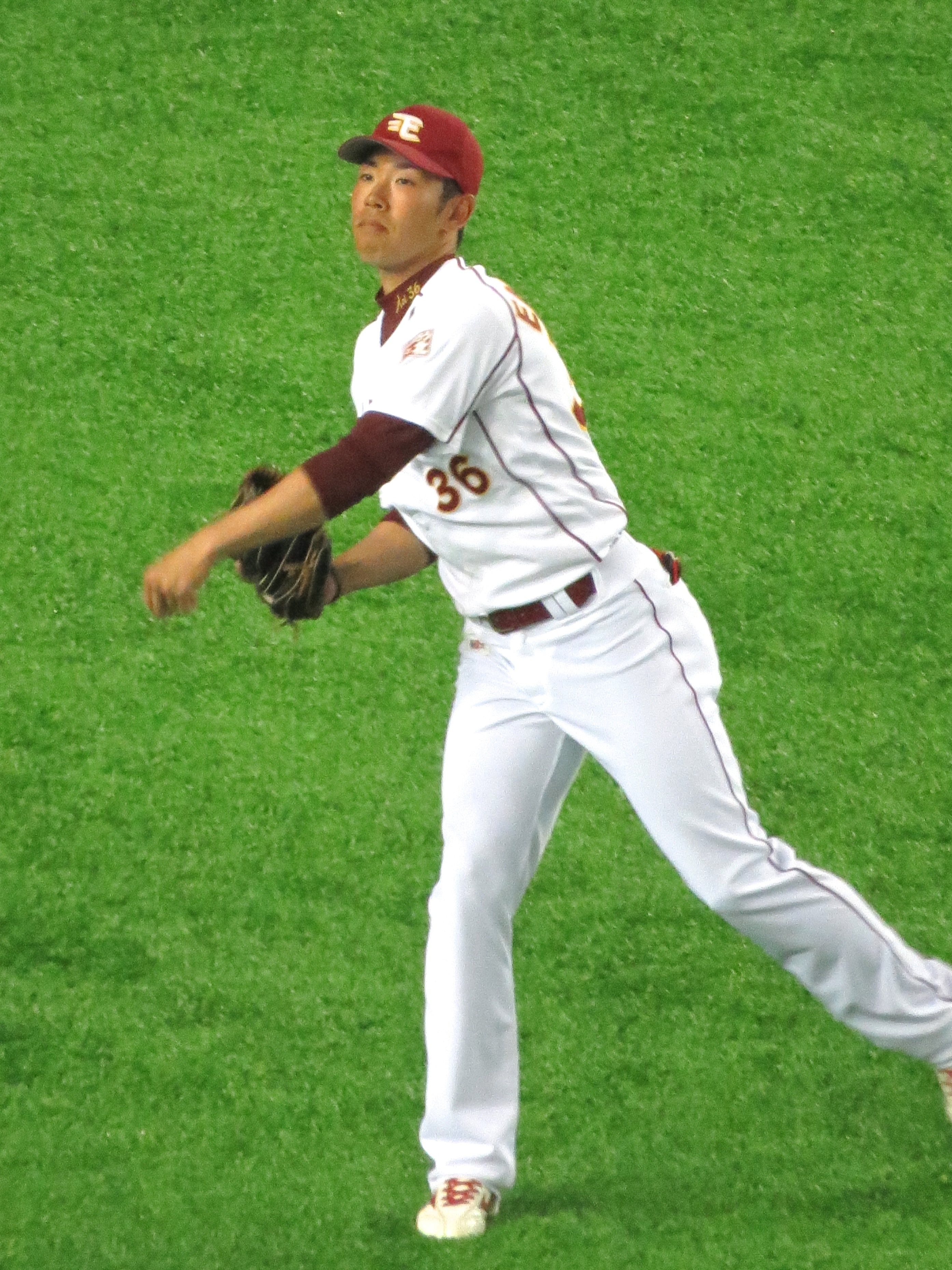 Aoi Enomoto, outfielder of the Tohoku Rakuten Golden Eagles, at Tokyo Dome.